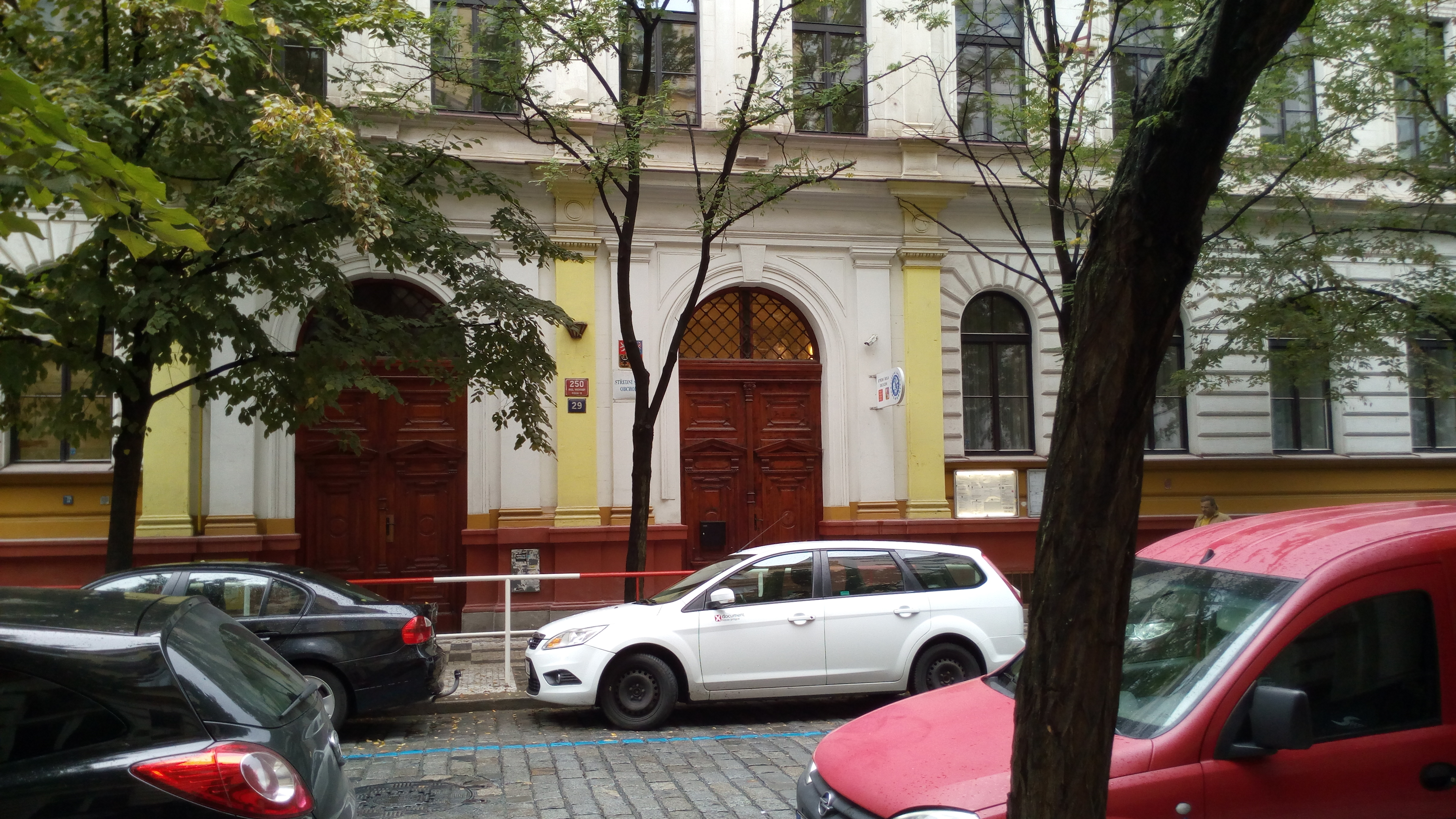 The building of "Střední škola obchodní" (High School of Commerce) in Prague, Belgicka street.